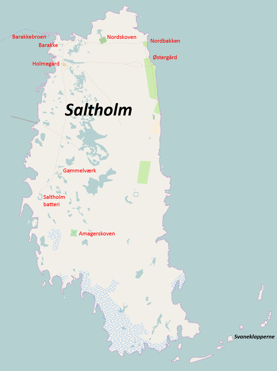 This map may be incomplete, and may contain errors. Don't rely solely on it for navigation.